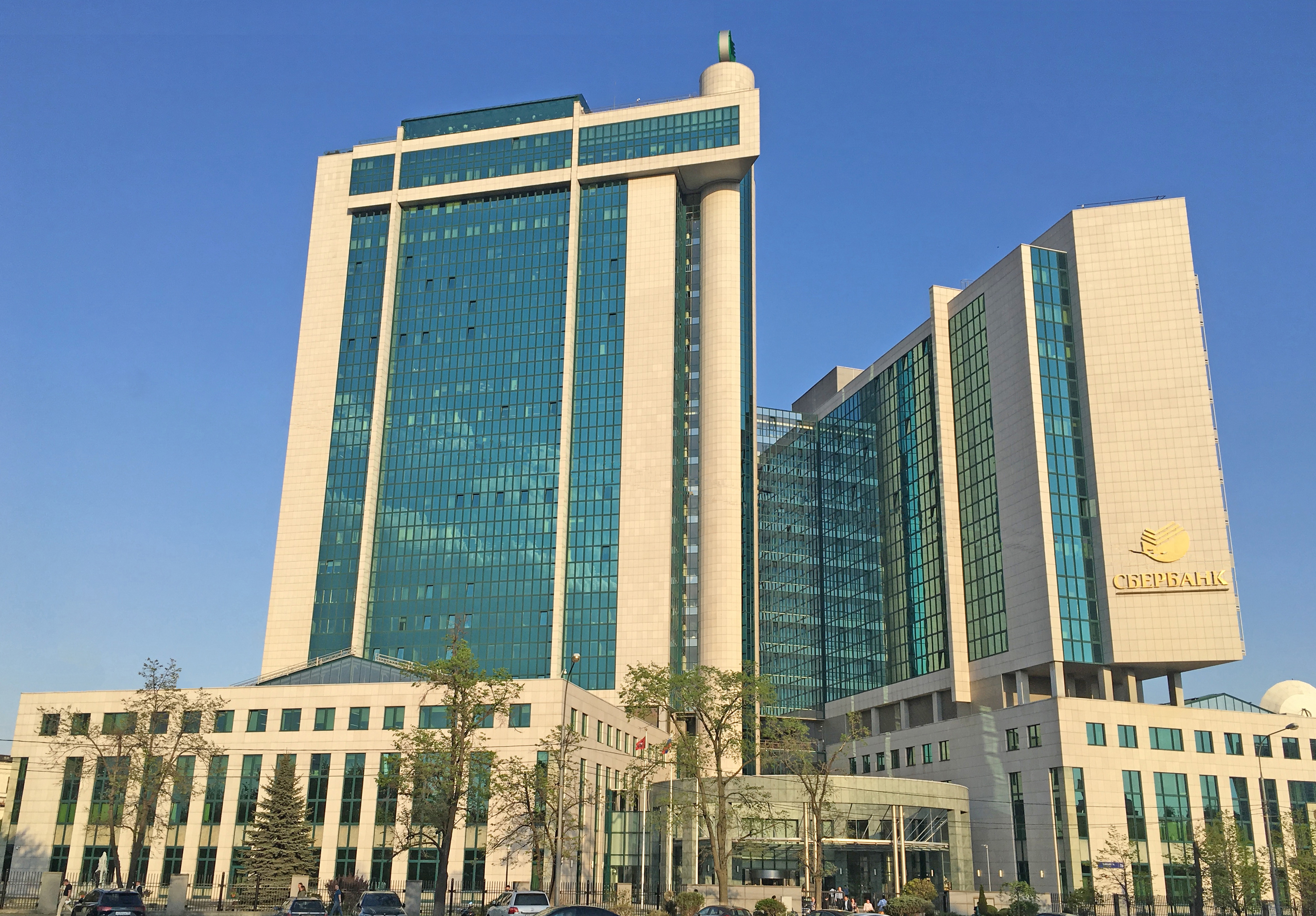 60-letiya Oktyabrya Prospekt, Moscow, Russia